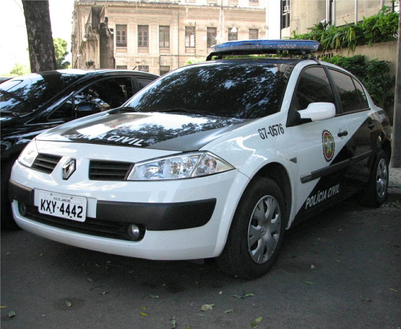 Police car 2010 - Civil Police of Rio de Janeiro State - Brazil